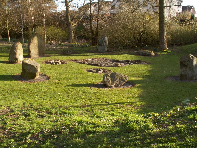 Balbirnie stone circle This small stone circle originally dates from between 4000 to 1500 BC. Unfortunately this one dates from 1970/71 when it was moved from its original site when the Glenrothes to New Inn road was made into a dual carriageway.